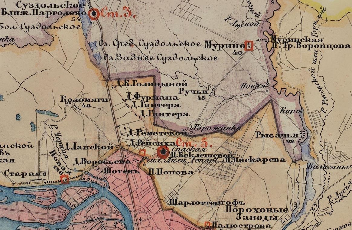 the detail of the map of the St.Petersburg Uezd, published in 1854